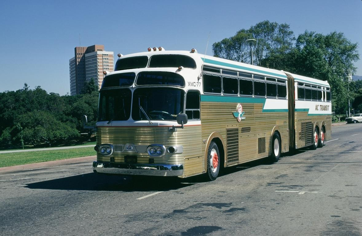 A photograph of a 1958 Golden Eagle motorcoach. Built by Kassbohrer in West Germany, this is one of 4 Super Golden Eagle articulated motorcoaches.